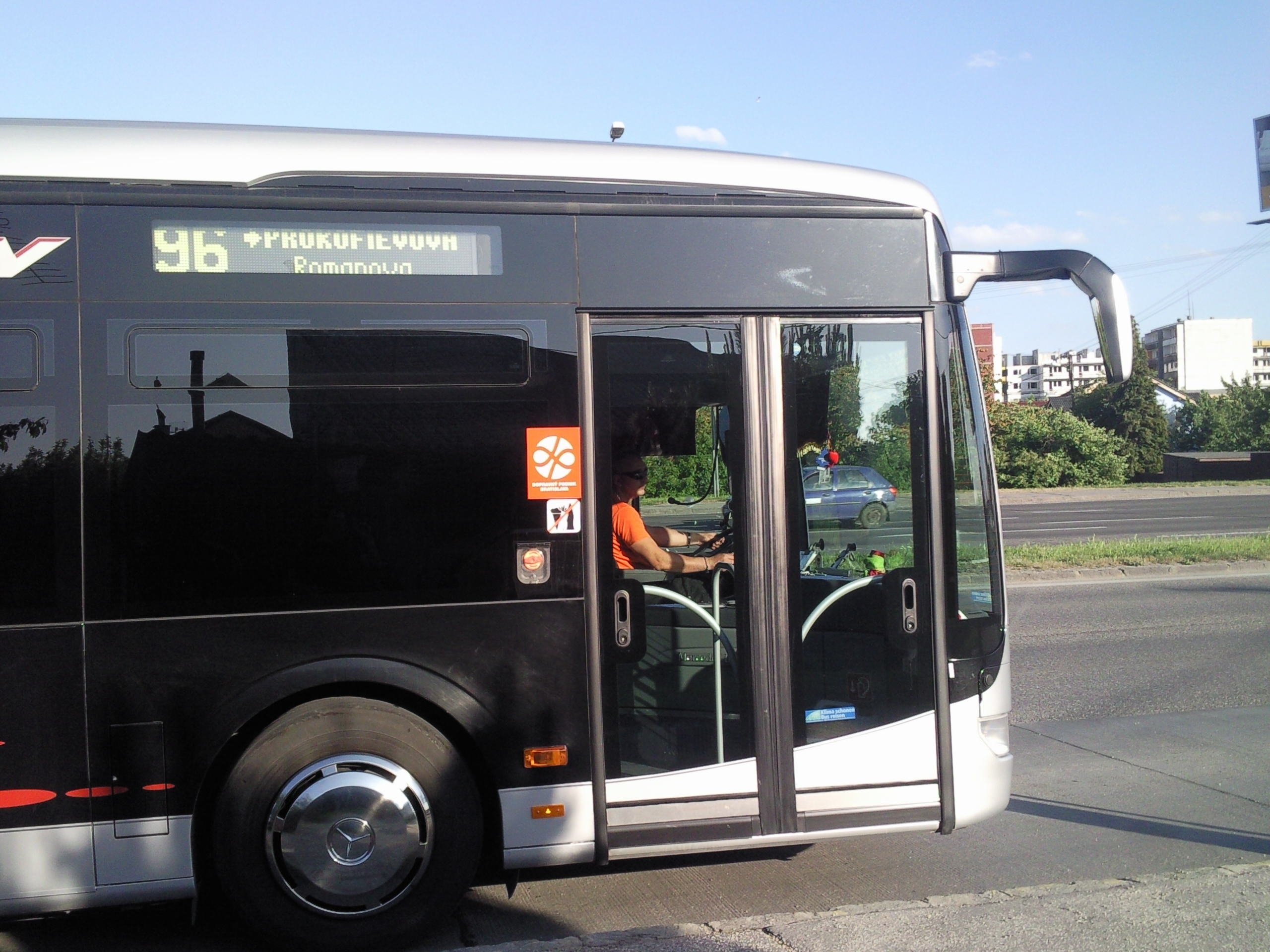 Mercedes-Benz O530GL CapaCity bus prototype (#1999) in Bratislava, Slovakia. Built 2005, Dopravný podnik Bratislava operator.